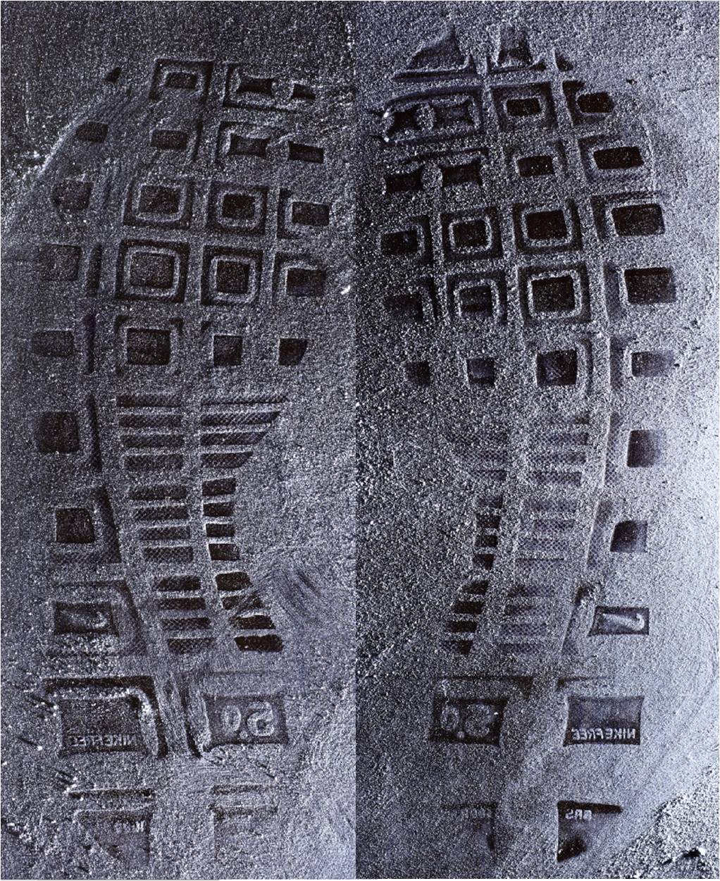 Closeup photos of a shoeprints left at a crime scene. Crime scene investigators can use these impressions to: Determine manufacturer/model/size of shoe that created the impression. Suggest or estimate height and sex of suspect that created impression. Establish link between crime scene shoeprints and shoes recovered from a suspect. In this case the following information. Nike "Swoosh" logo, "NIKE FREE" & "BRS 1000" markings suggests the shoe's manufacturer to be Nike. The shapes and patterns in the shoeprints suggests that it was made by a athletic style shoe. Shoeprint length is 290cm. This suggests that the suspect to be approximately ~170cm tall (~5'8 tall). Shoe size would US Mens Size 9 to 10. This large shoeprint size suggests that the shoe was worn by a male suspect.